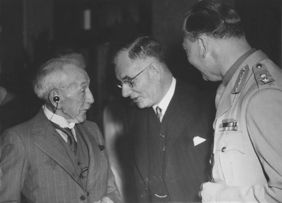 Billy Hughes, John Curtin, and Governor-General Prince Henry, Duke of Gloucester in Canberra.